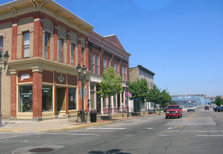 Historic buildings in the west side of downtown Bay City, Michigan, USA.